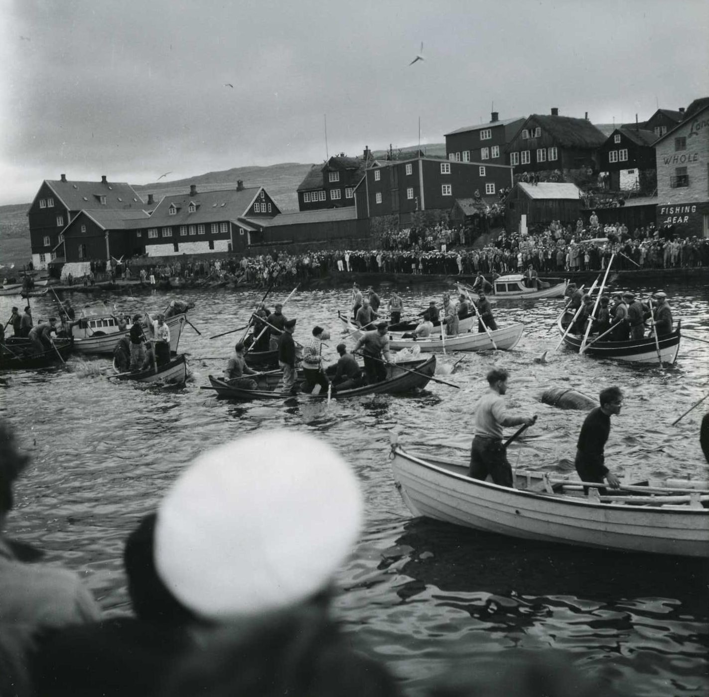 Hunt for pilot whales in Tórshavn, Faroe Islands.